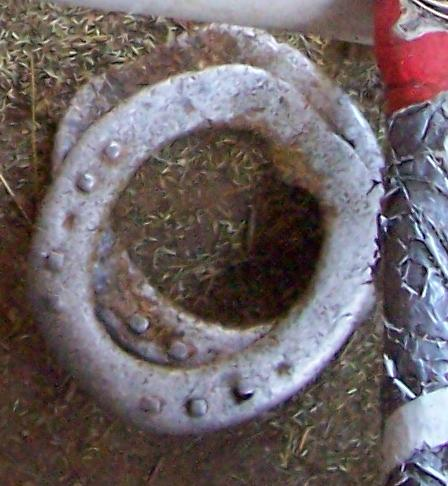 From Image:Farrier tools.jpg Author: User:Alex_brollo Tools of an italian farrier. Pietrarossa stable, Ronchi deiu Legionari (IT), 2006